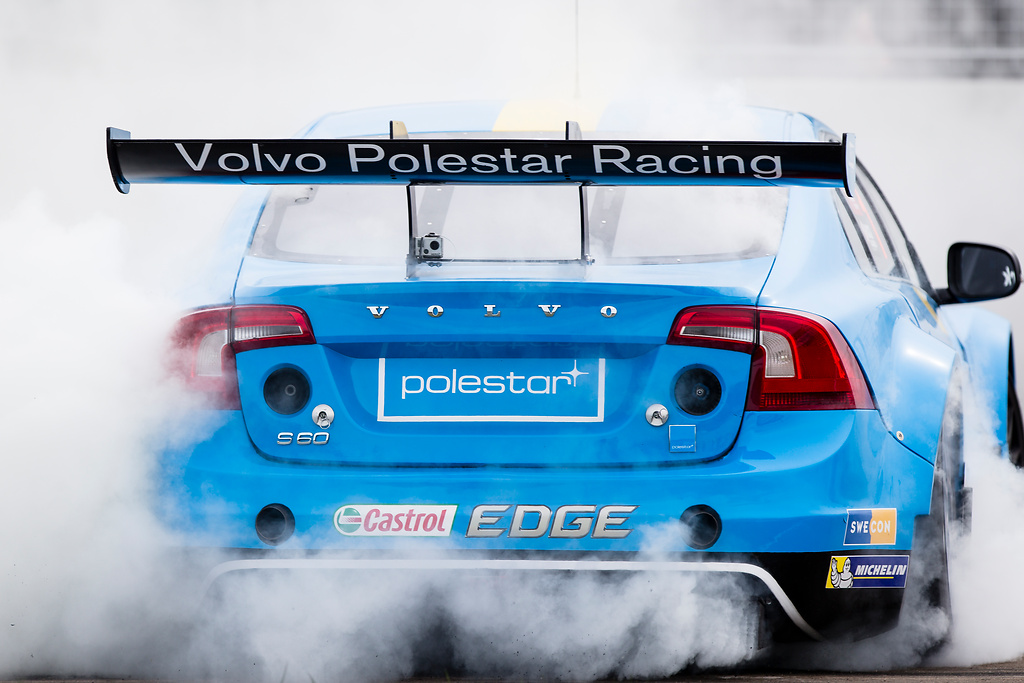 Thed Björk in Skövde 2015